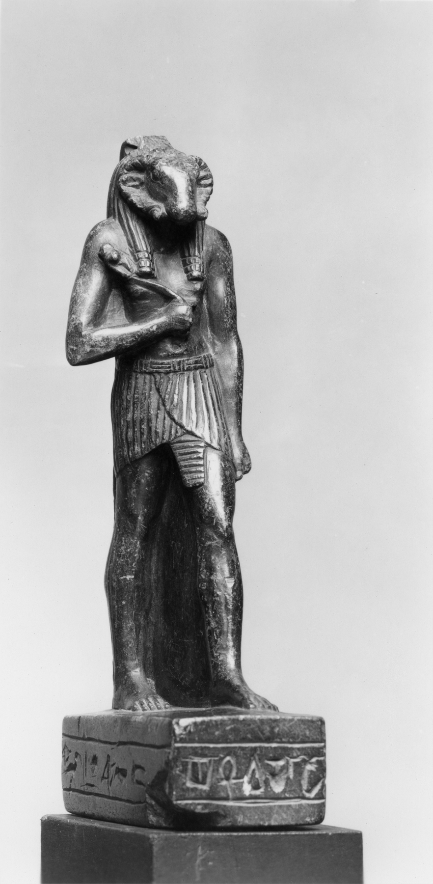 Khnum holds a whip in his right hand. The inscription says that this votive figure was dedicated by King Psametik. As in large scale Egyptian granite standing or striding figures, there is no space between the legs, and the arms are kept close to the body. The headdress has broken off.